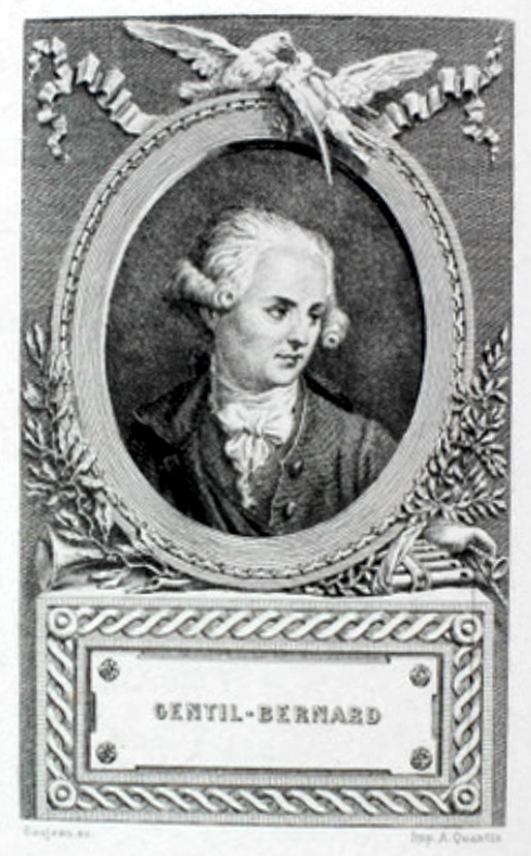 Pierre-Joseph Bernard, aka Gentil-Bernard (1708–1775), French salon poet